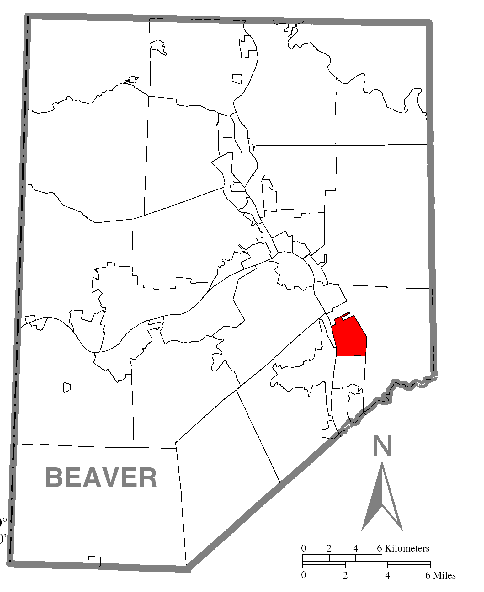 A map of Beaver County showing Baden, Pennsylvania (alternate) highlighted on the map.